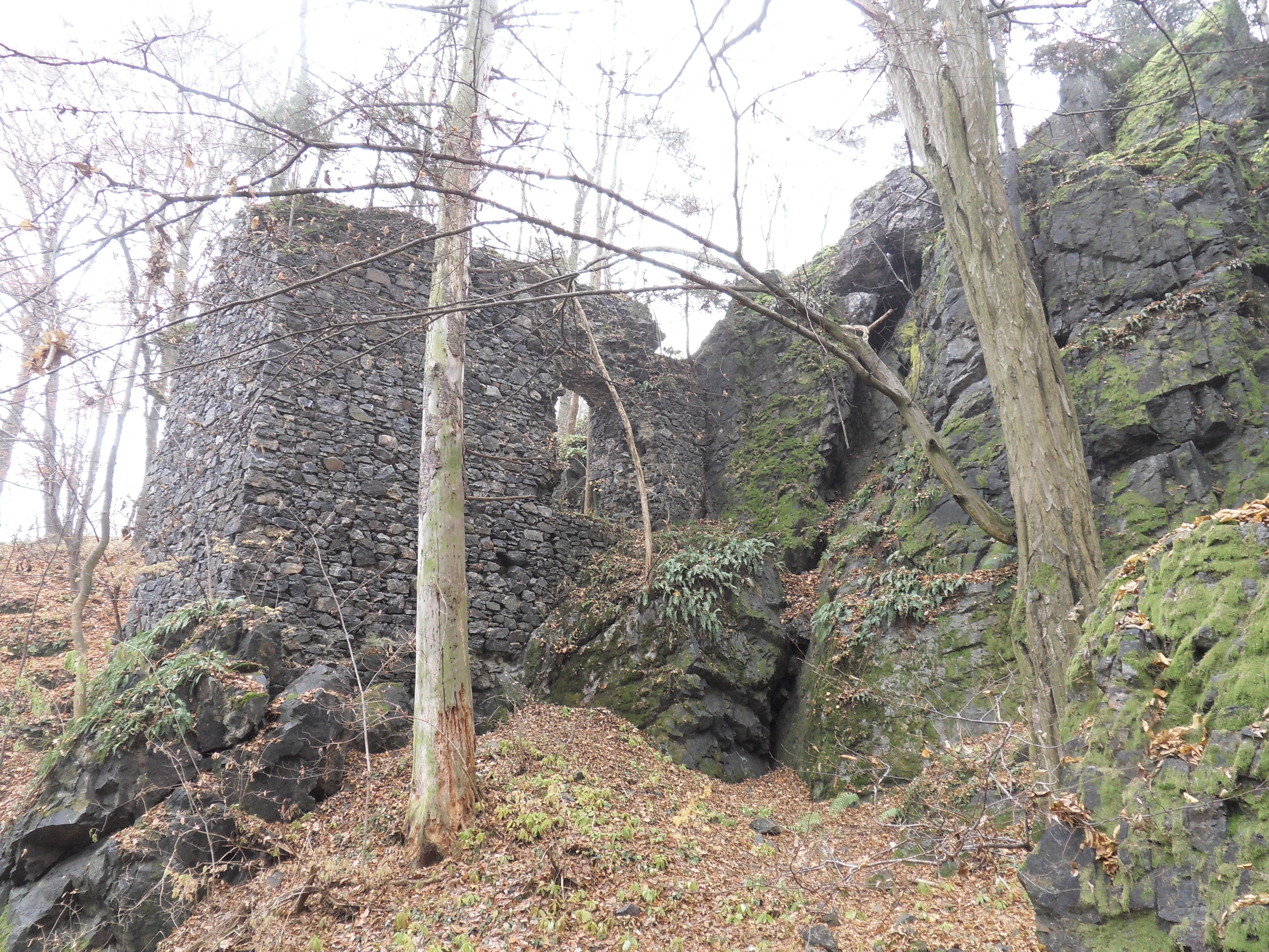 Castle Skála (Ruins of castle in Plzeň-South District ). View from the west to the northern part of the castle.